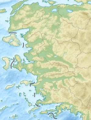 Location map of western Turkey Equirectangular projection, N/S stretching 120 %